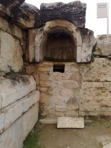 Plutonium